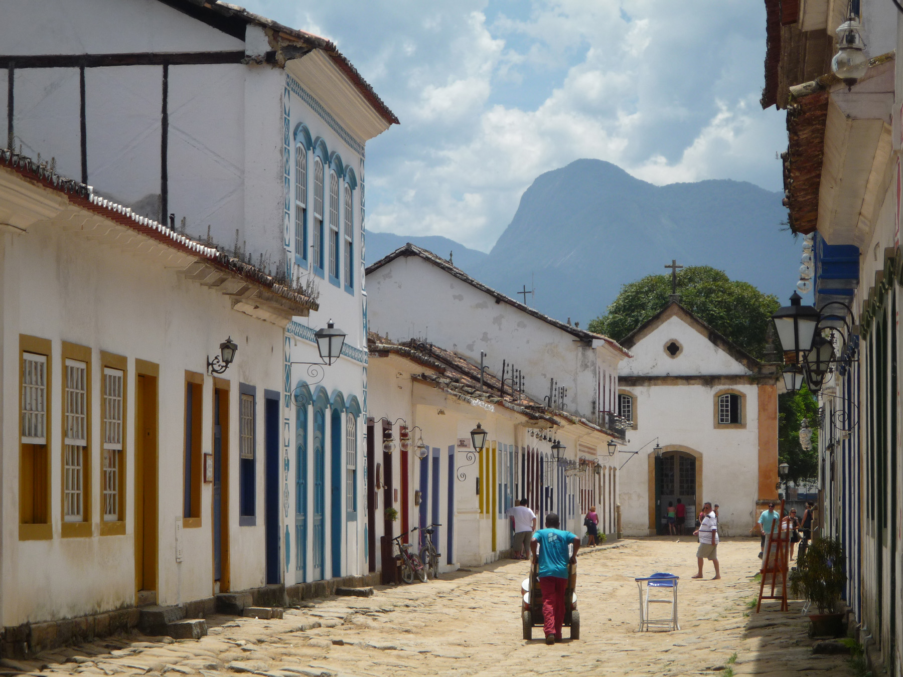 Street in the historical town of Paraty, Brasil